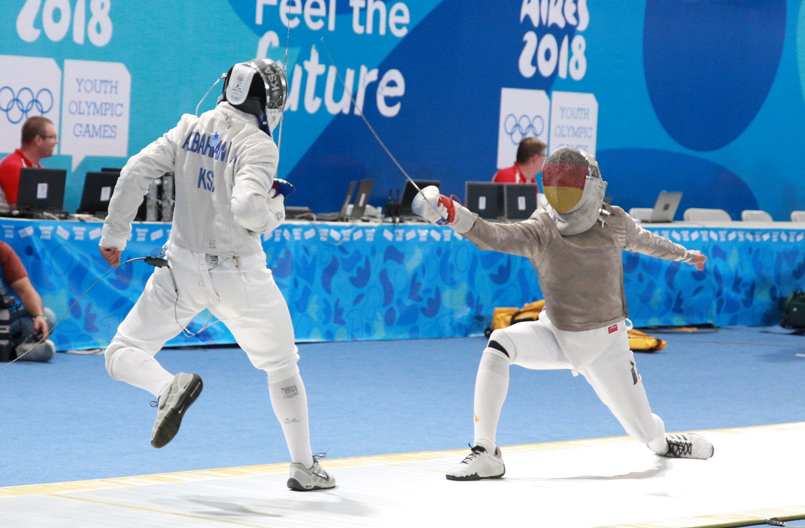 Fencing at the 2018 Summer Youth Olympics at 7 October 2018 – Boys' sabre Round of 16 – Ali Al-Bahrani (KSA) Vs Antonio Heathcock (GER) 9:15